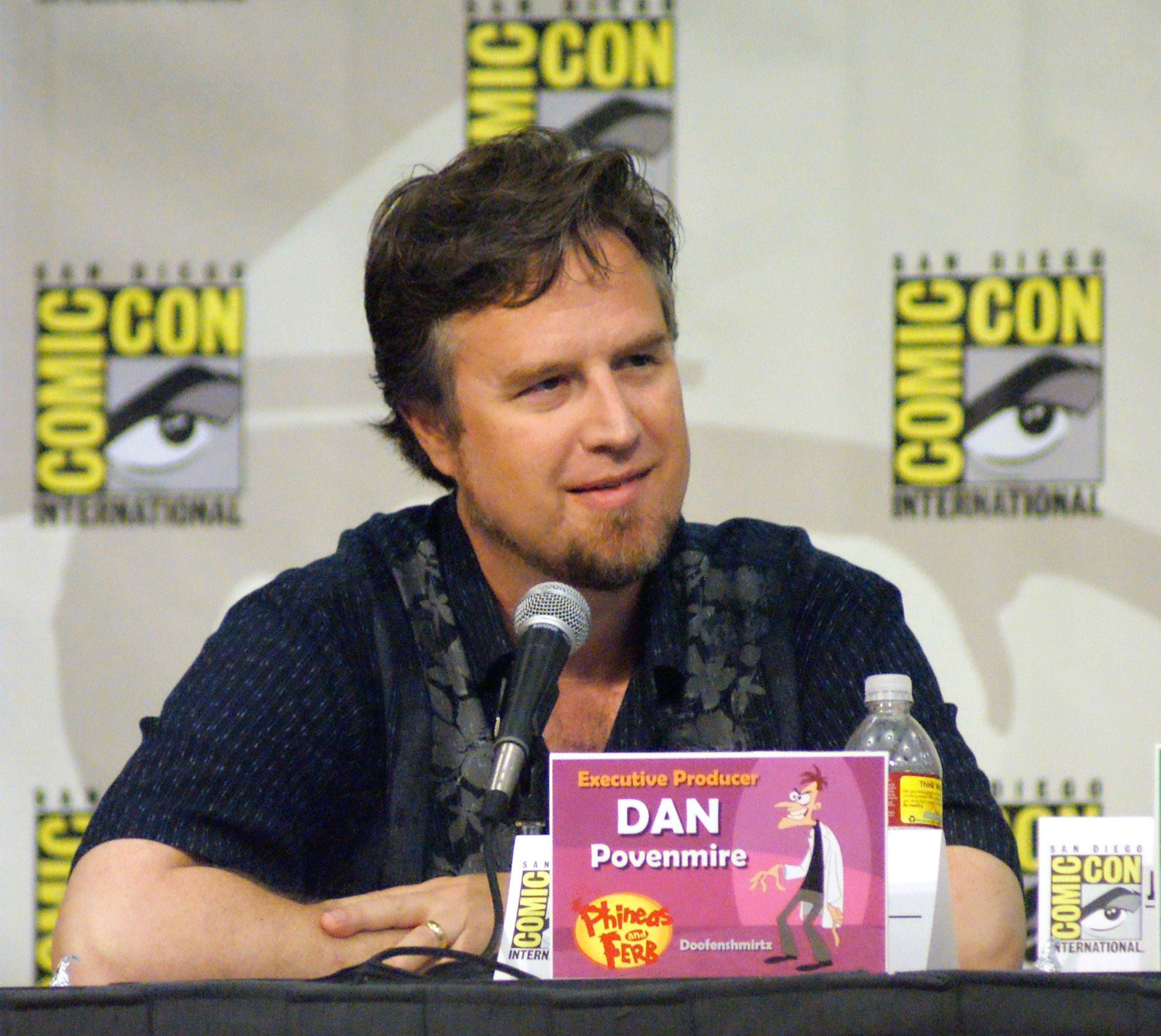 Dan Povenmire Comic-Con 2009 - Phineas and Ferb panel